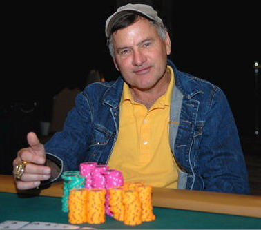 James Richburg in the 2007 World Series of Poker - Rio Las Vegas.